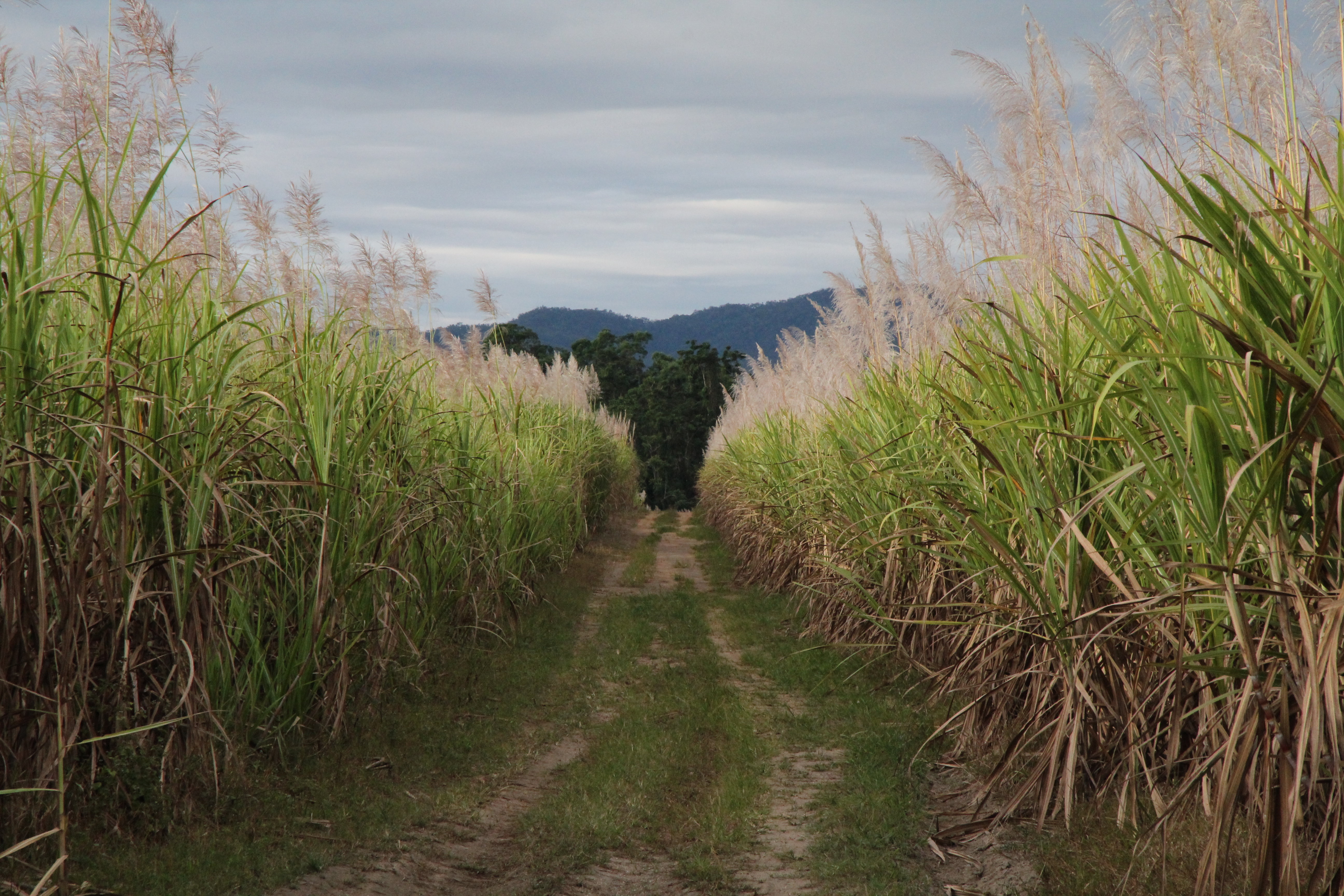 Large depth of field - sugar cane